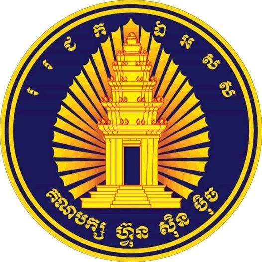 Former Party Logo of FUNCINPEC, used between 2006-2015.